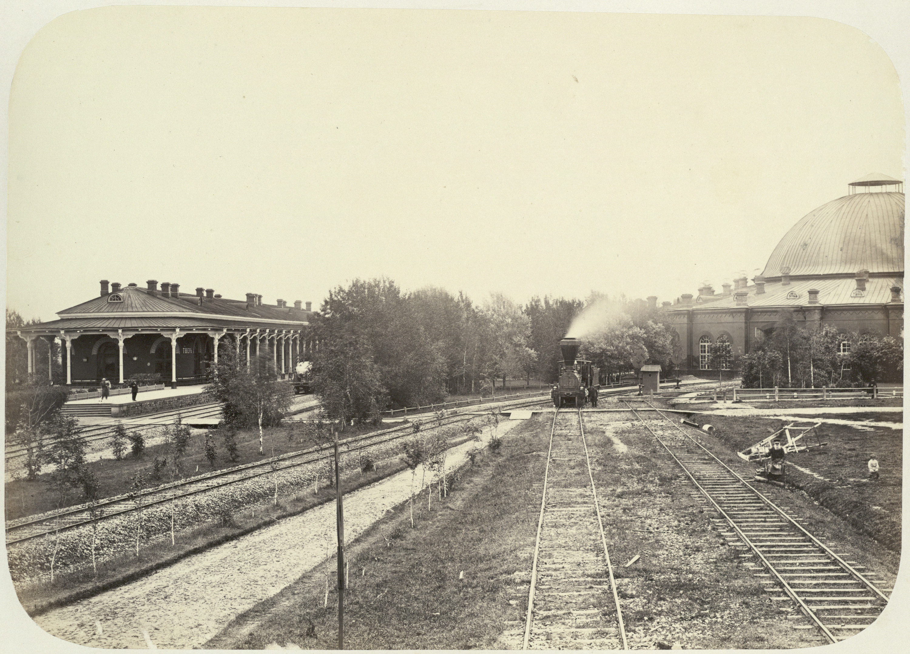 Title: Tver depot and roundhouse, ca. 1860 Creator: Goffert, I. [attrib.] Date: ca. 1863-1864 Part Of: Views of the Nikolaev Railway Physical Description: 1 photographic print: albumen; 22.5 x 31.7 cm. on 33.5 x 43.5 cm. mount File: ag1982_0226x_30_opt.jpg Rights: Please cite Southern Methodist University, Central University Libraries, DeGolyer Library when using this image file. A high-quality version of this file may be obtained for a fee by contacting . For more information, see: View Europe, India, and Asia: Photographs, Manuscripts, and Imprints